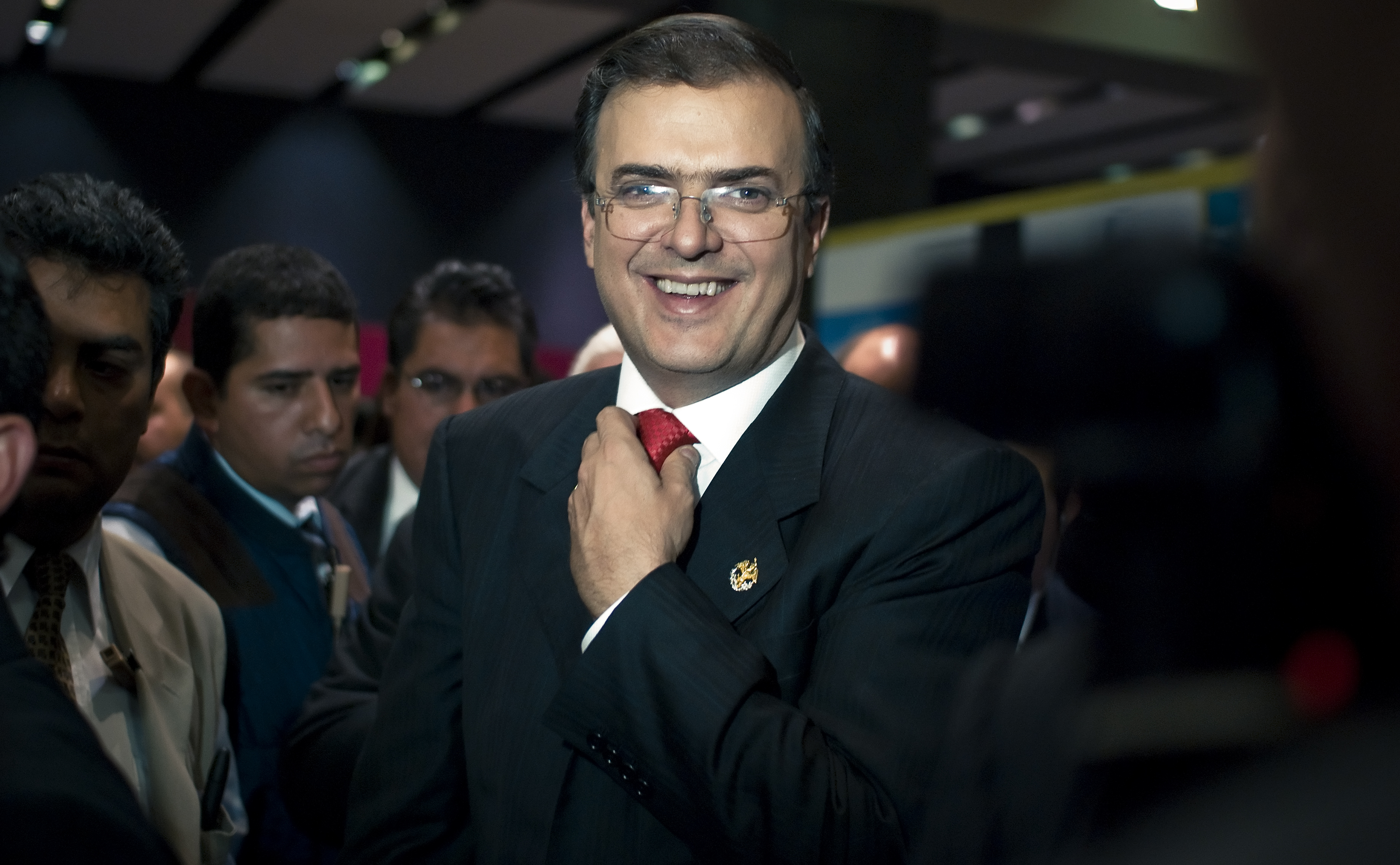 Marcelo Ebrard, chief of government of Mexico City.